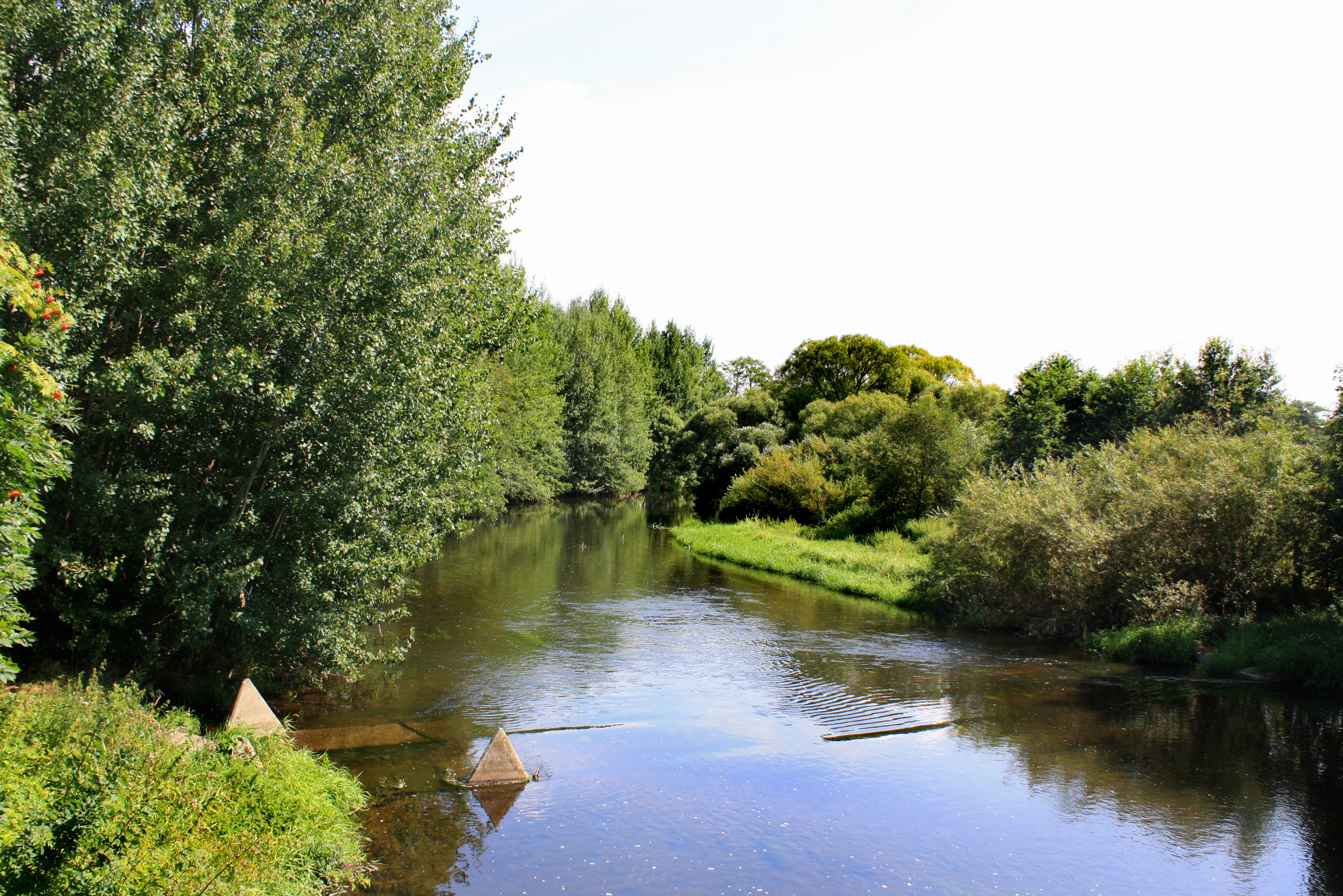 Ohře river in Chocovice, part of Třebeň village, Czech Republic